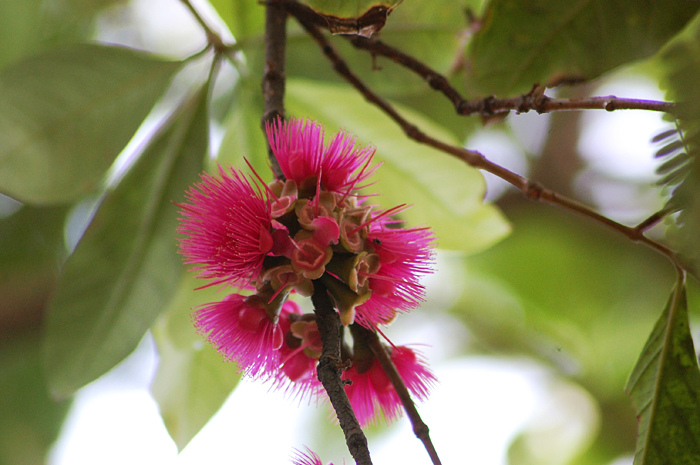 Flowers of Syzygium malaccense from Myrtaceae. It is said that this is the most beautiful of all Myrtaceae plants. Having seen it in peak bloom, I would agree 100%.